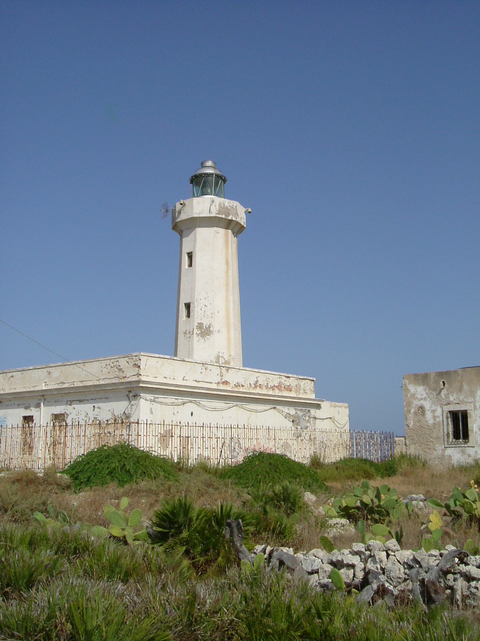 Lighthouse at Capo Murro di Porco, Syracuse, Sicily.